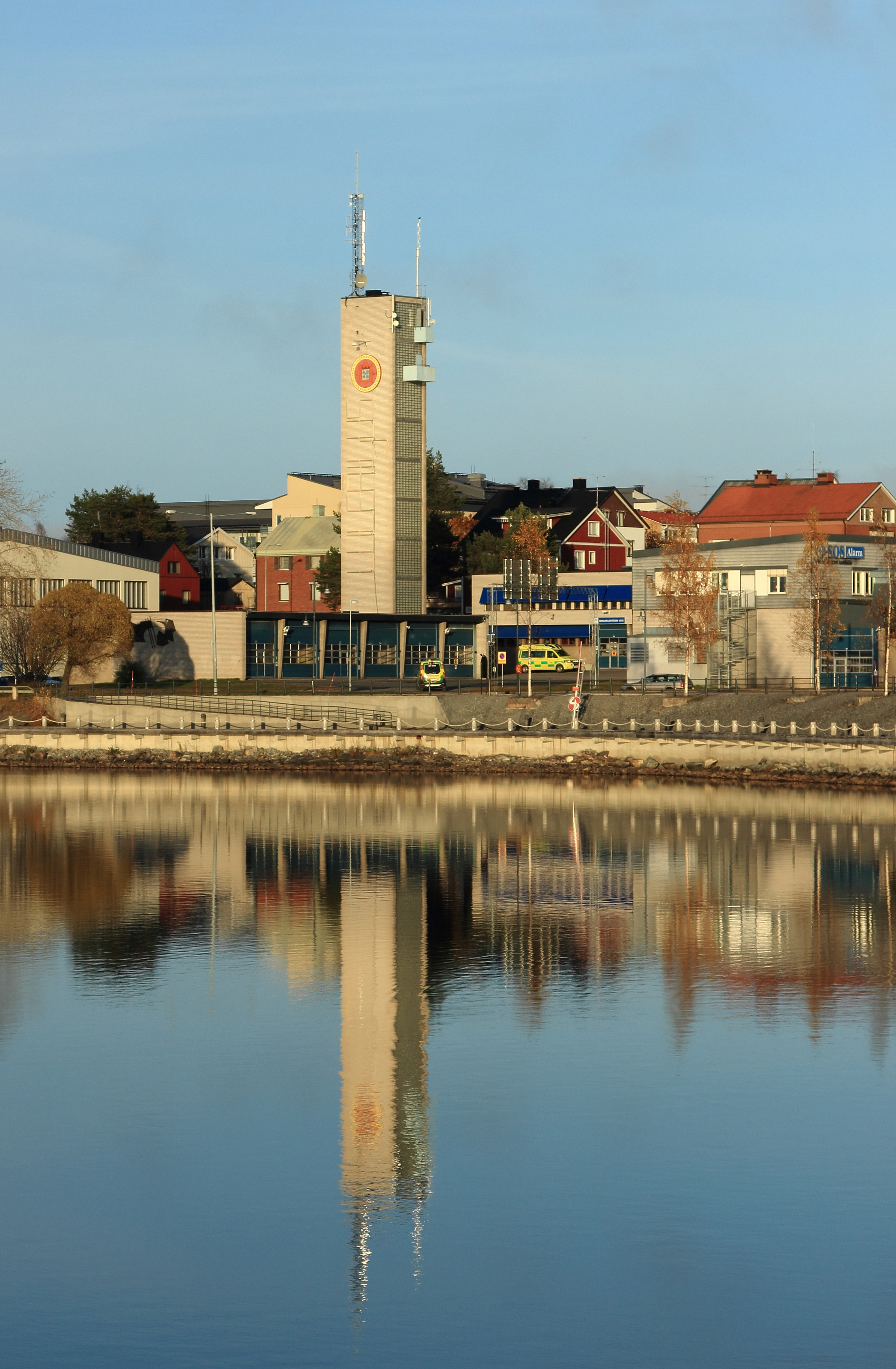 Luleå fire station.